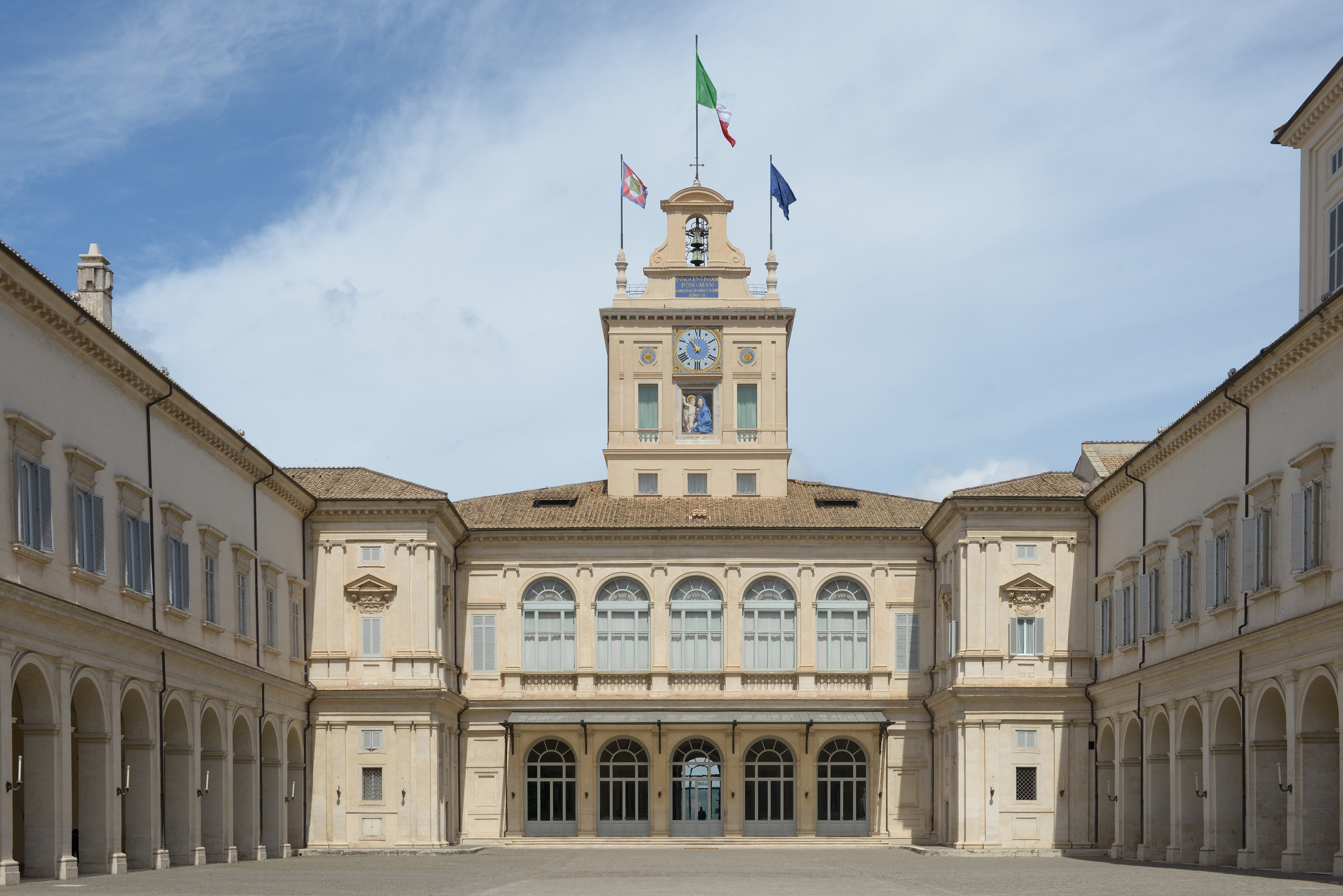 Court of the Quirinal Palace in Rome.